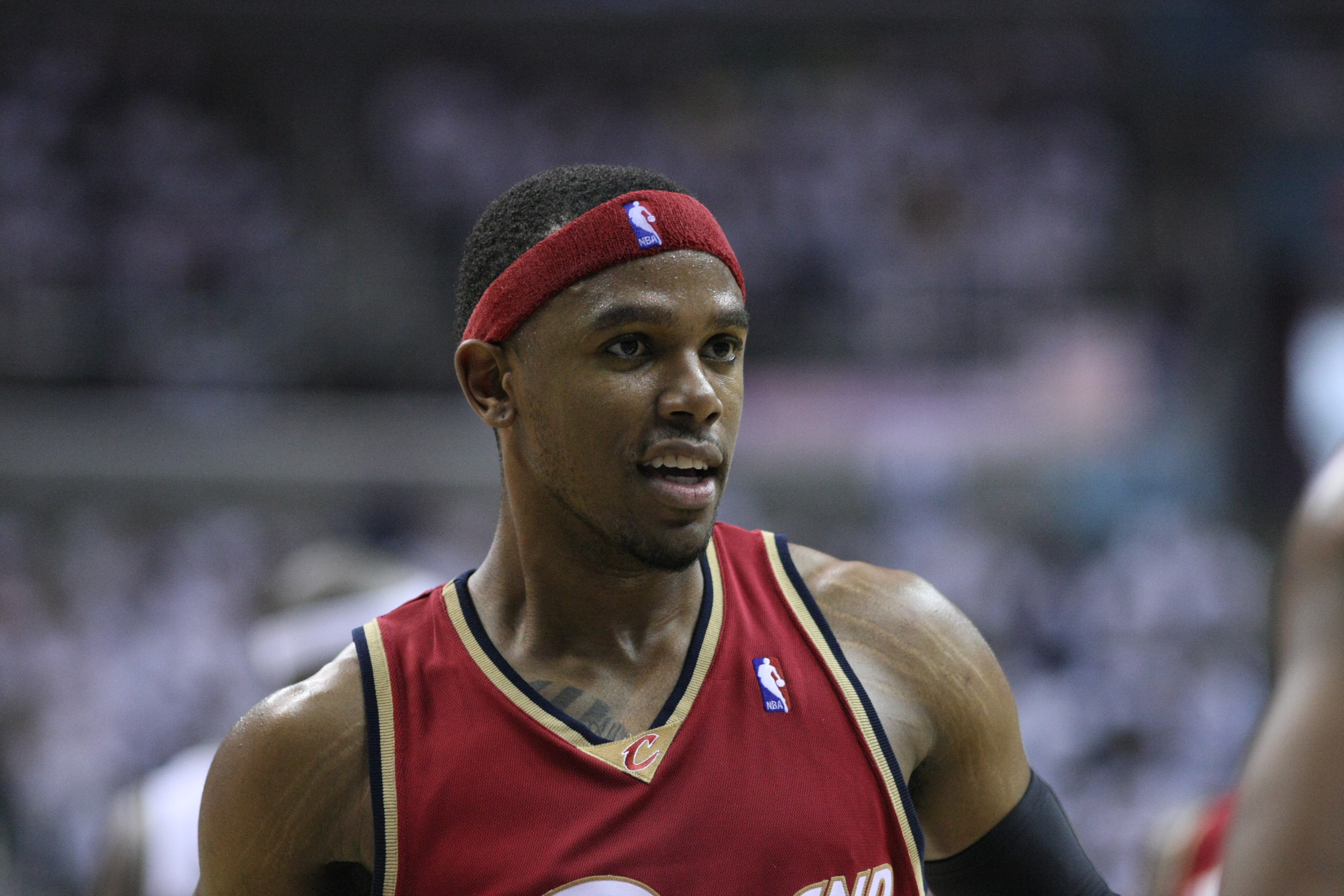 Daniel Gibson